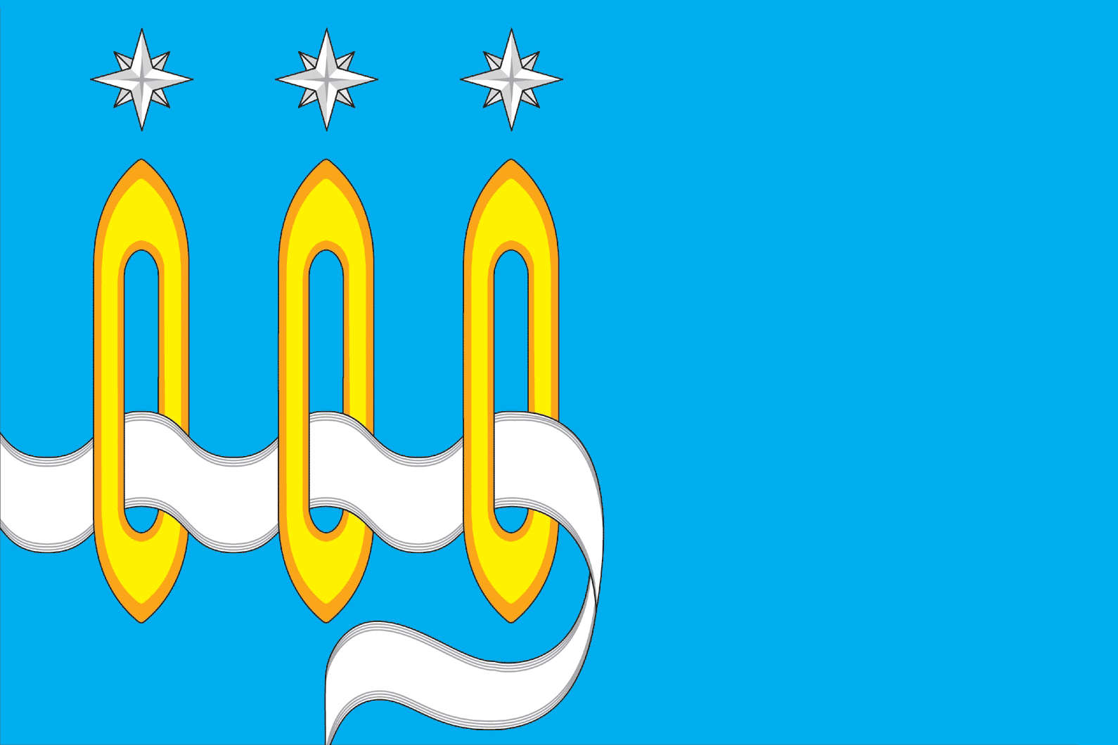 Schelkovo (Moscow oblast), flag